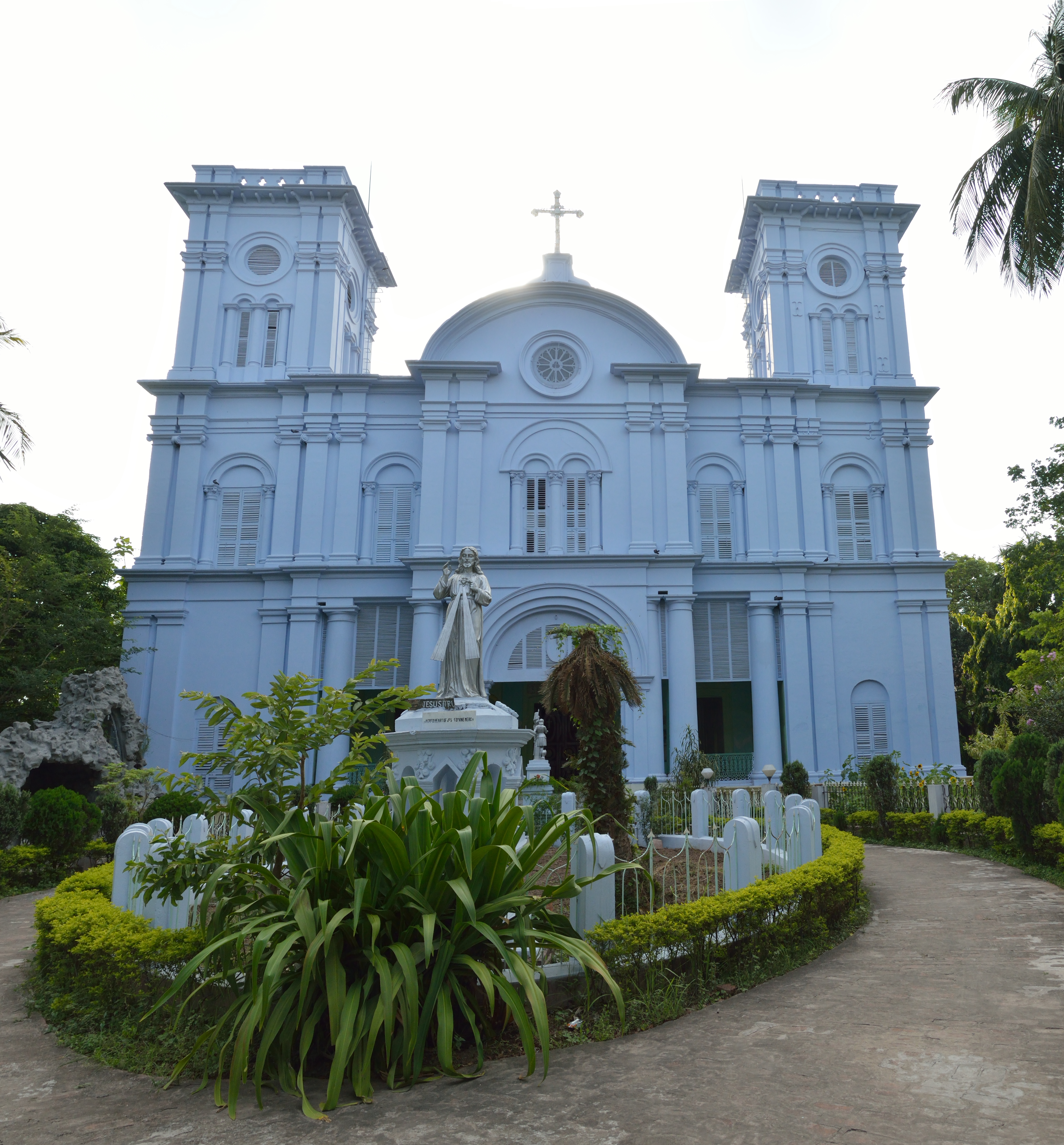 Photographed at Chandan Nagar, Hooghly, West Bengal, India.